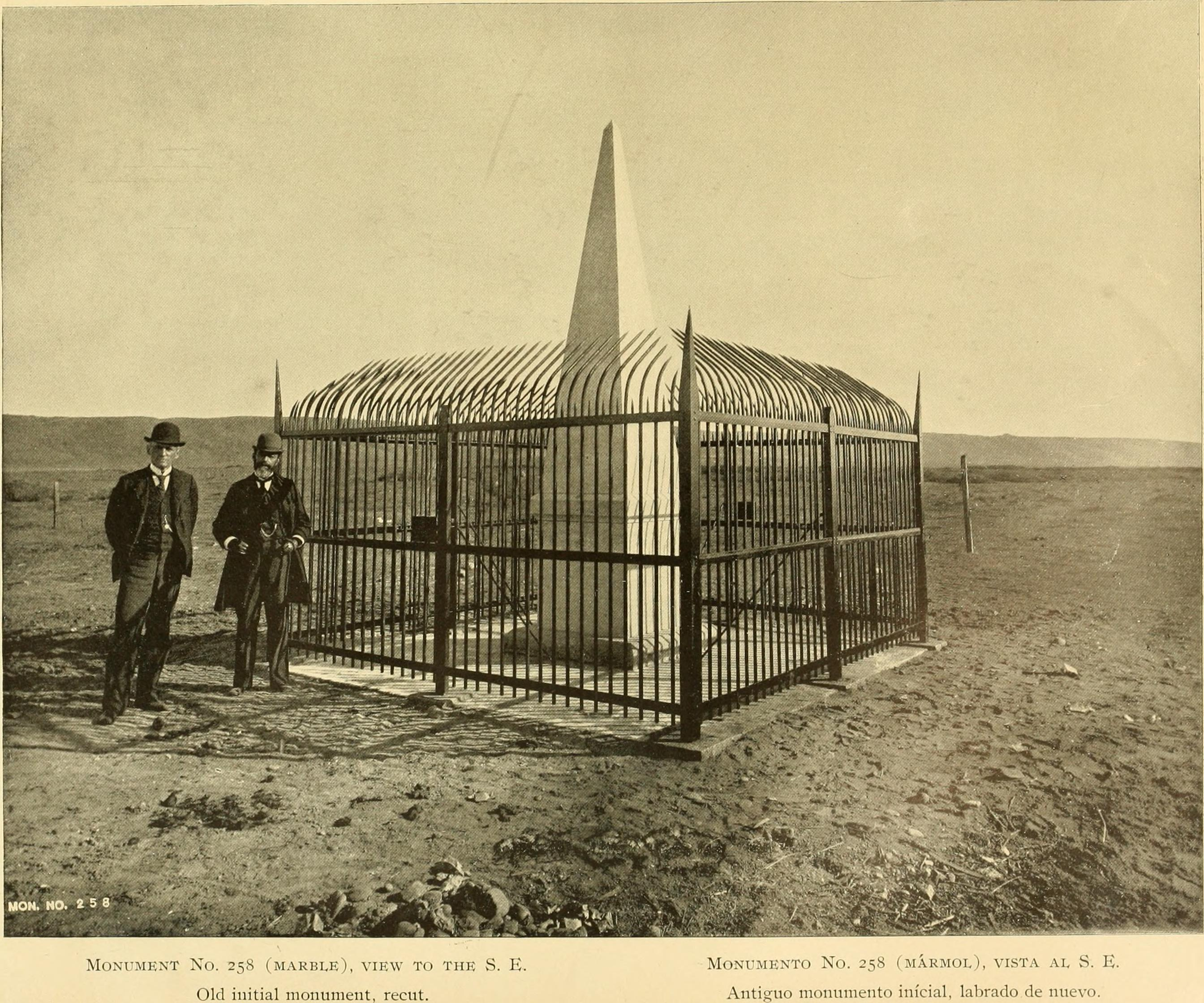 Monument No. 258 Title: Report of the Boundary commission upon the survey and re-marking of the boundary between the United States and Mexico west of the Rio Grande, 1891-1896 .. Year: 1898 (1890s) Authors: International boundary commission (United States and Mexico) 1882-1896. (from old catalog) Subjects: Publisher: Washington, Govt. print. off. Text Appearing Before Image: t engineer; and L. Seward Terry,Secretary of U. S. Commission. A steel i)icket fence to protect the monument from injury, and an interior jjavement were;)rovided, as at No. 255. The pickets of these fences curve in at the top, making access to theinclosure extremely difficult. The erection of this monument completed the marking of the southern California line andthe entire bonndary between the Kio Grande and the Pacific Ocean. Of the 53 monuments on this section of the boundary 35 are of iron, cast solid; 12 are iron,sectional; 2 old sectional iron, repaired; 2 of masonry built on old sites; 1 granite; 1 marble,recut from old initial monument. The average distance between monuments is 2.7 miles; the maximum 7,533 meters; theminimum 809 meters. The work began on March 20 and continued until June 30, 189i, during a period of eighty-eight working days, in which the monuments, except the 2 built by contract, were erected; theaverage time per monument being about one and eight tenths days. Text Appearing After Image: INTERNATIONAL BOUJNDARY SURVEY UNITED STATES AND MEXICO k. T ;eG-i- ^4—Lo--;c—^eN NOTE. ThicTmess of Metal jfBolts 2!ll)etweeiiTVasliersaiLcL 1 Diameter.Nuts 2 Toxmd, 1^ Hexagon-He aa..Washers 6DiaiiL.lry-i iMck 3.0 ELEVATION